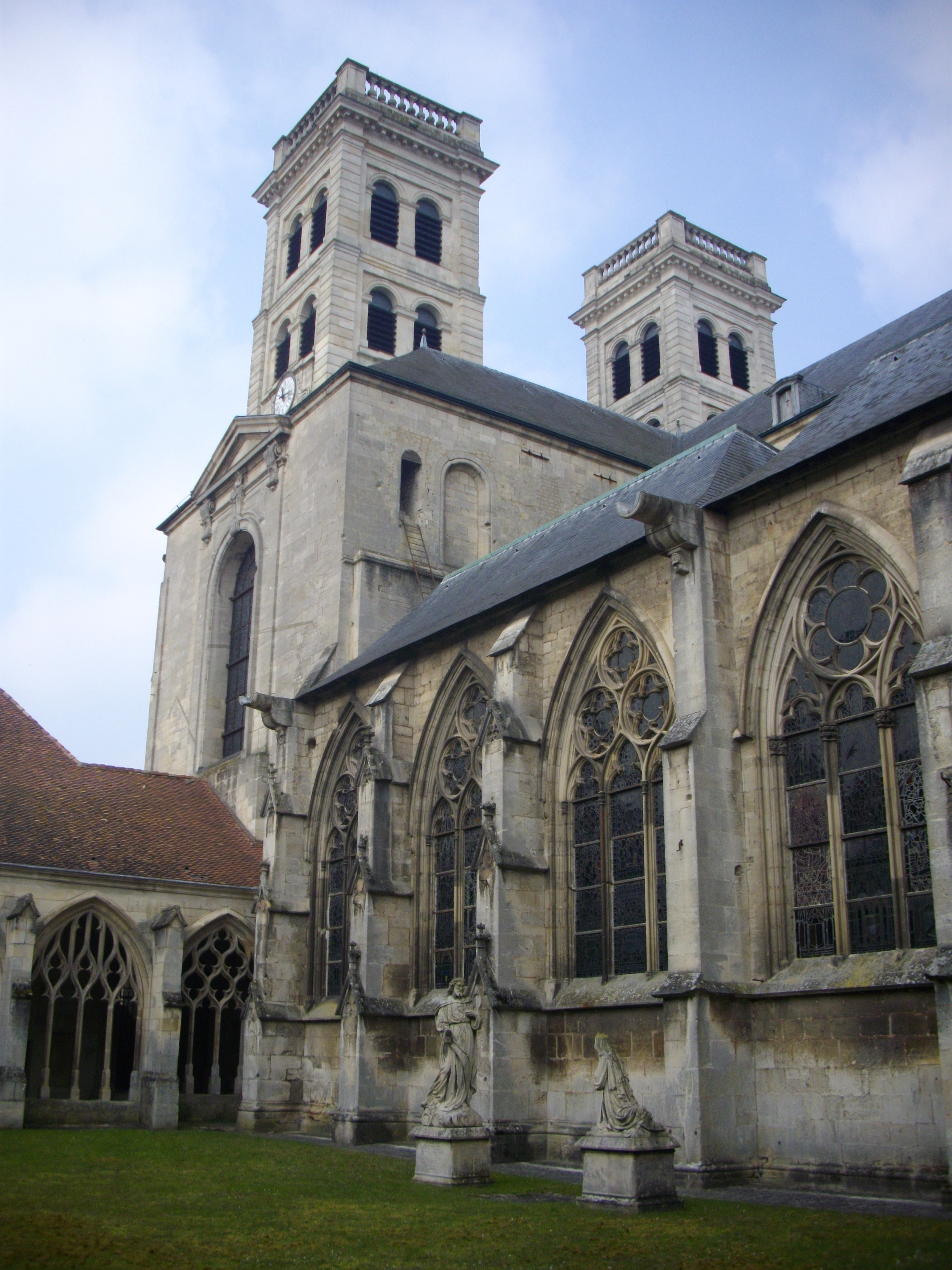 Towers of Our Lady cathedral of Verdun (Meuse, France) seen from the cloister .